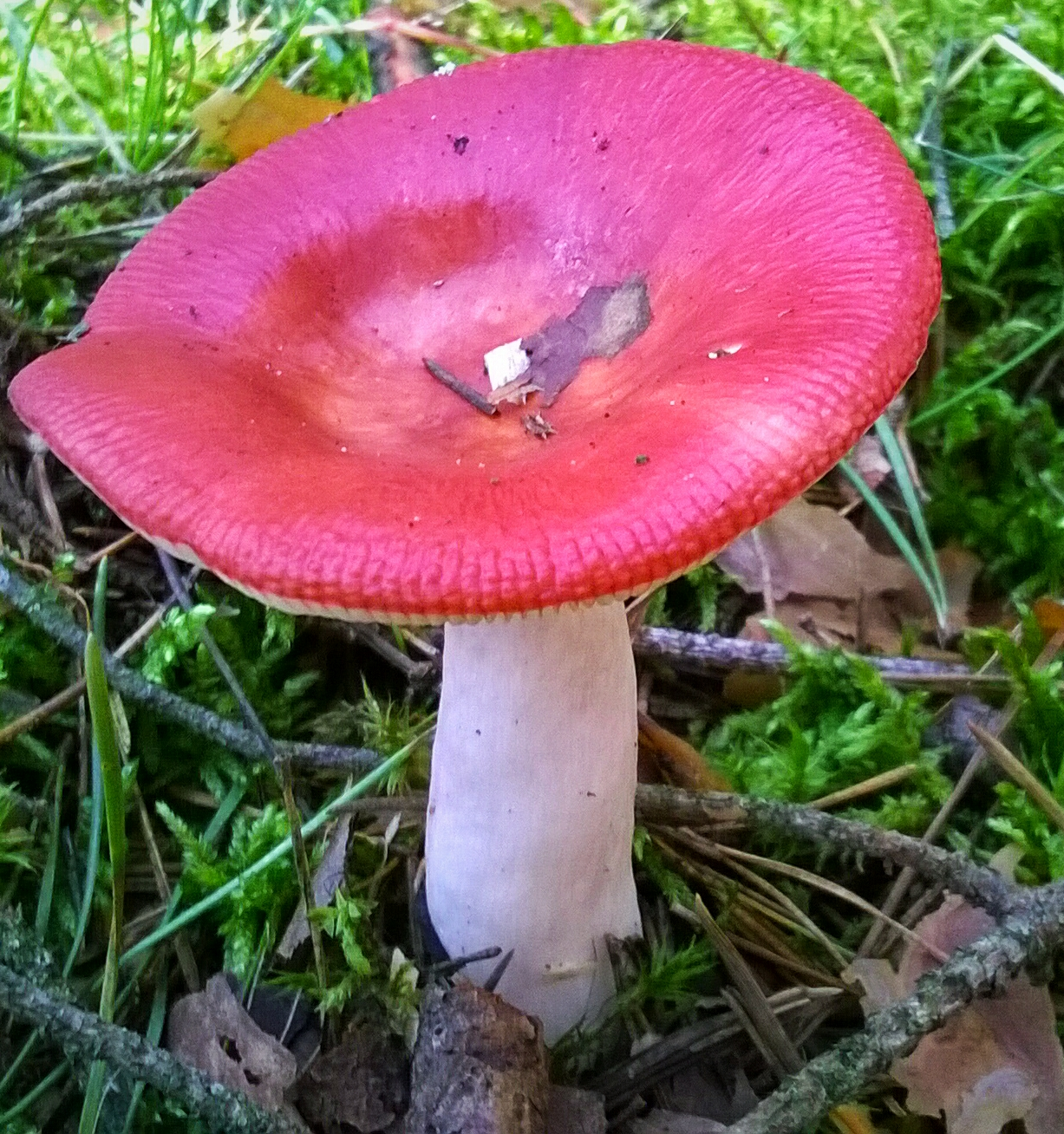 Russula emetica in Poland